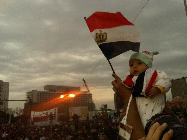 A baby Egyptian protesting the government in Tahrir square